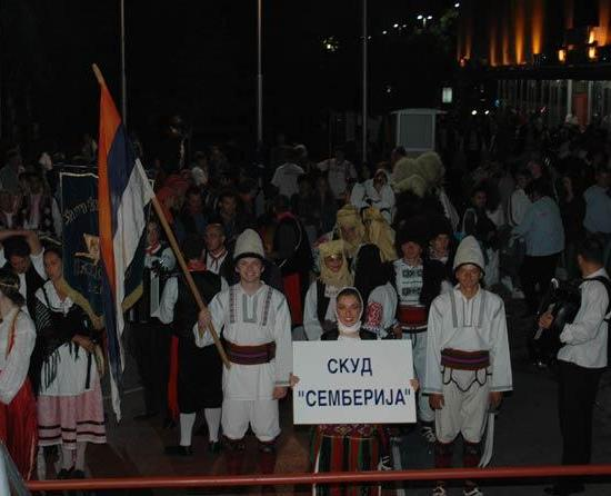 Image taken in 2006.